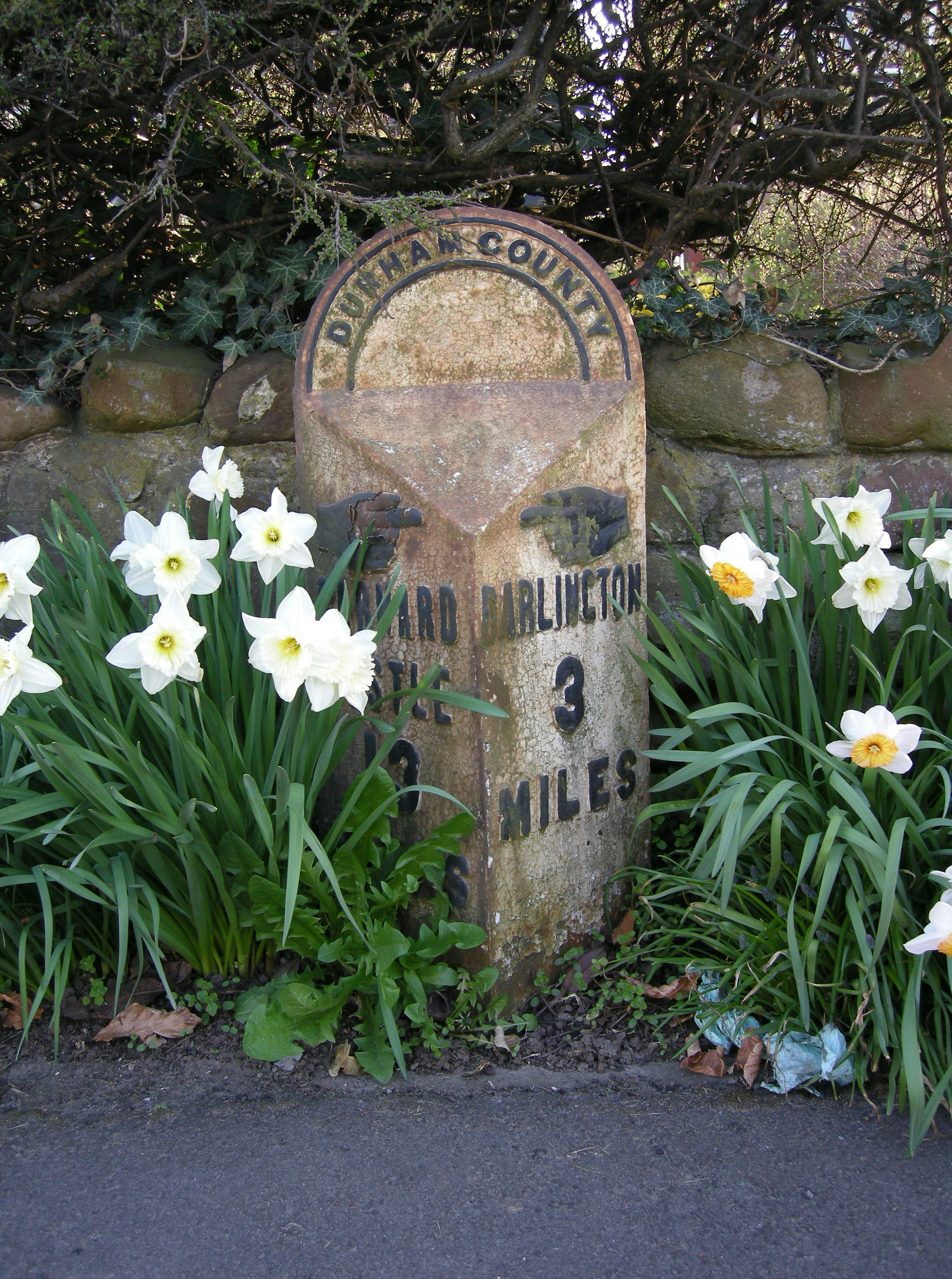 Merrybent milepost, at Merrybent, County Durham, England. It is cast iron, Victorian and listed by English Heritage. It was probably in situ before any of the Merrybent houses were built.